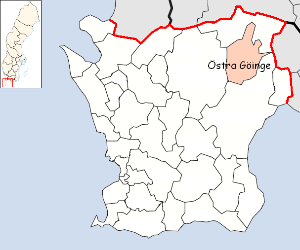 Östra Göinge Municipality in Scania, Sweden Designed by me. Mere outlines are a PD source from